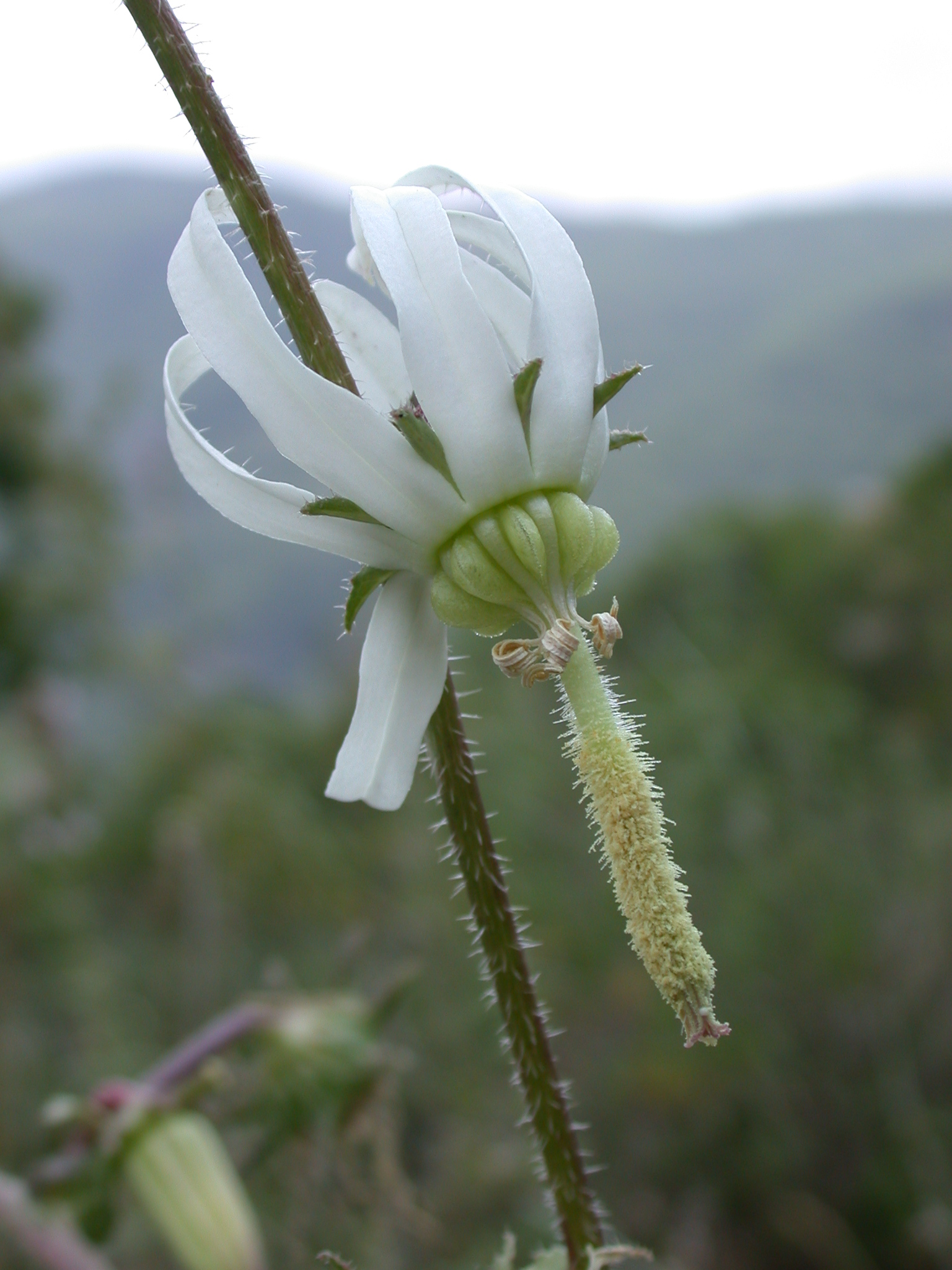 Michauxia campanuloides L'Her. (מישויה פעמונית), Upper Galilee, Israel, May 2006.